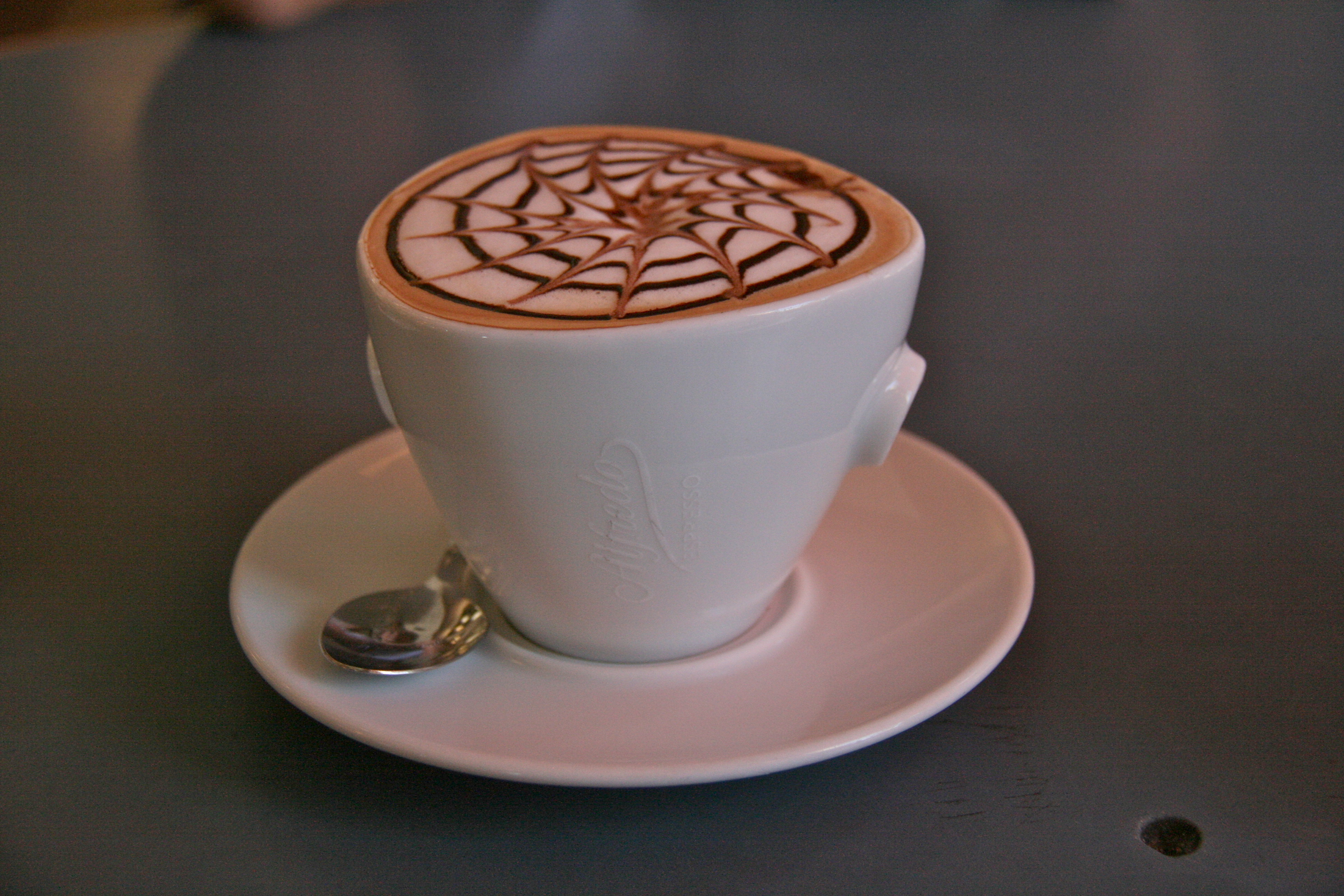 Caffe Latte